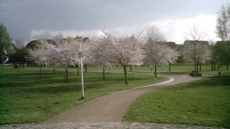 "Jubilee's Garden" between Bockert and Hoser, Viersen, Germany